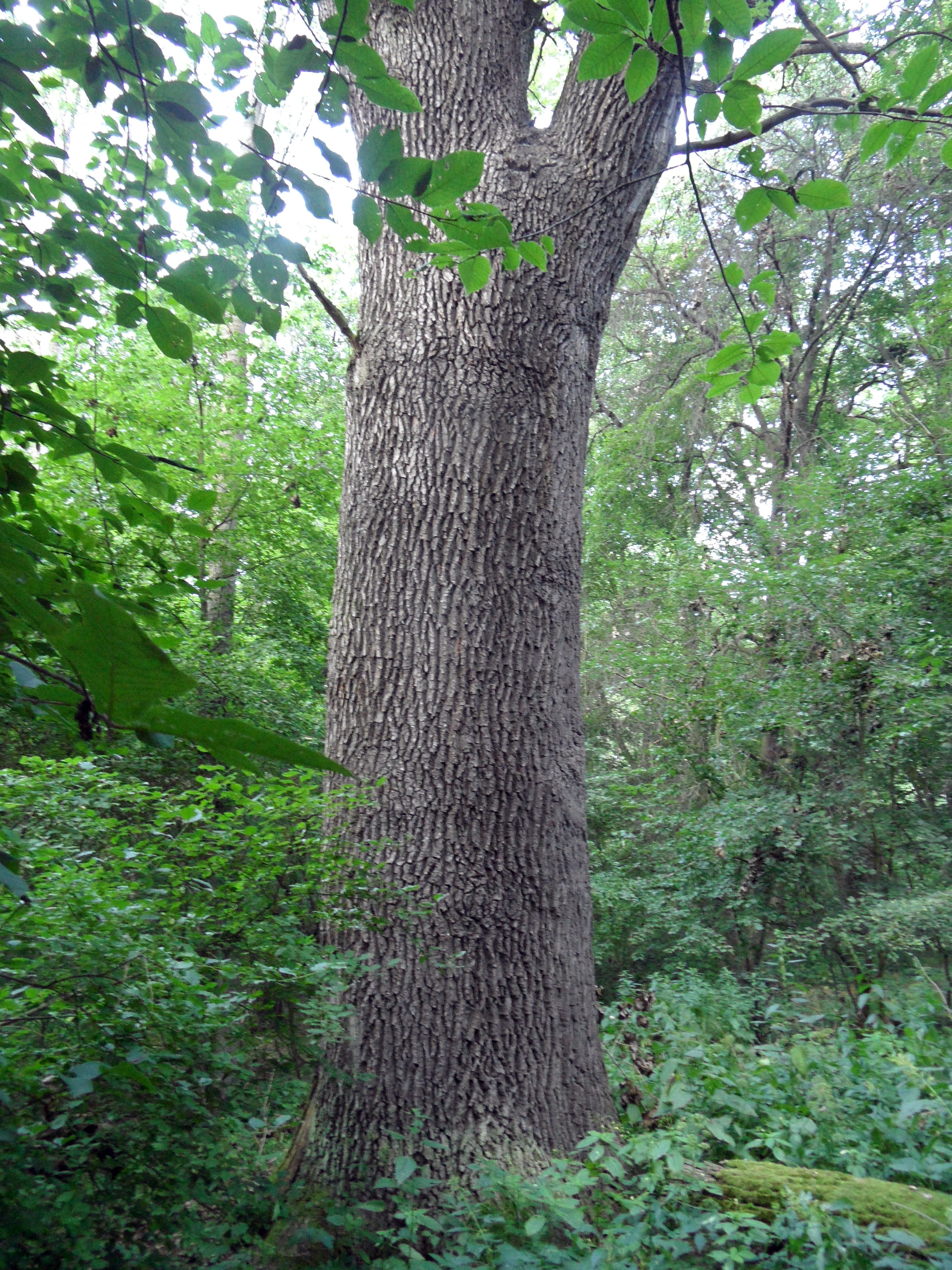 Quercus robur in Veltrubský luh. Kolín District, the Czech Republic.